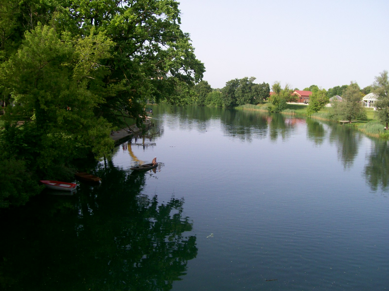 River Korana in Karlovac